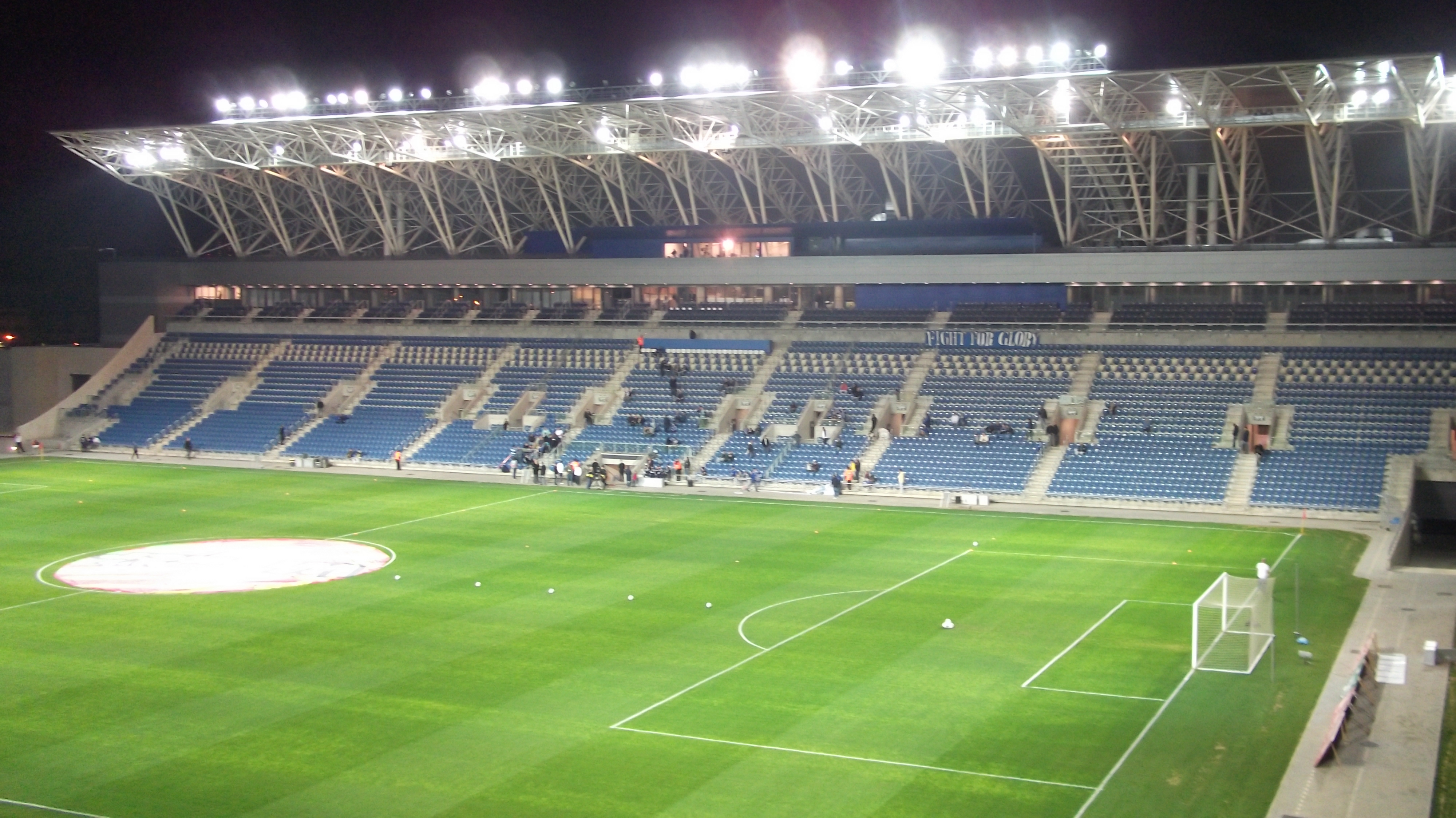 HaMoshava Stadium, Petach Tivka